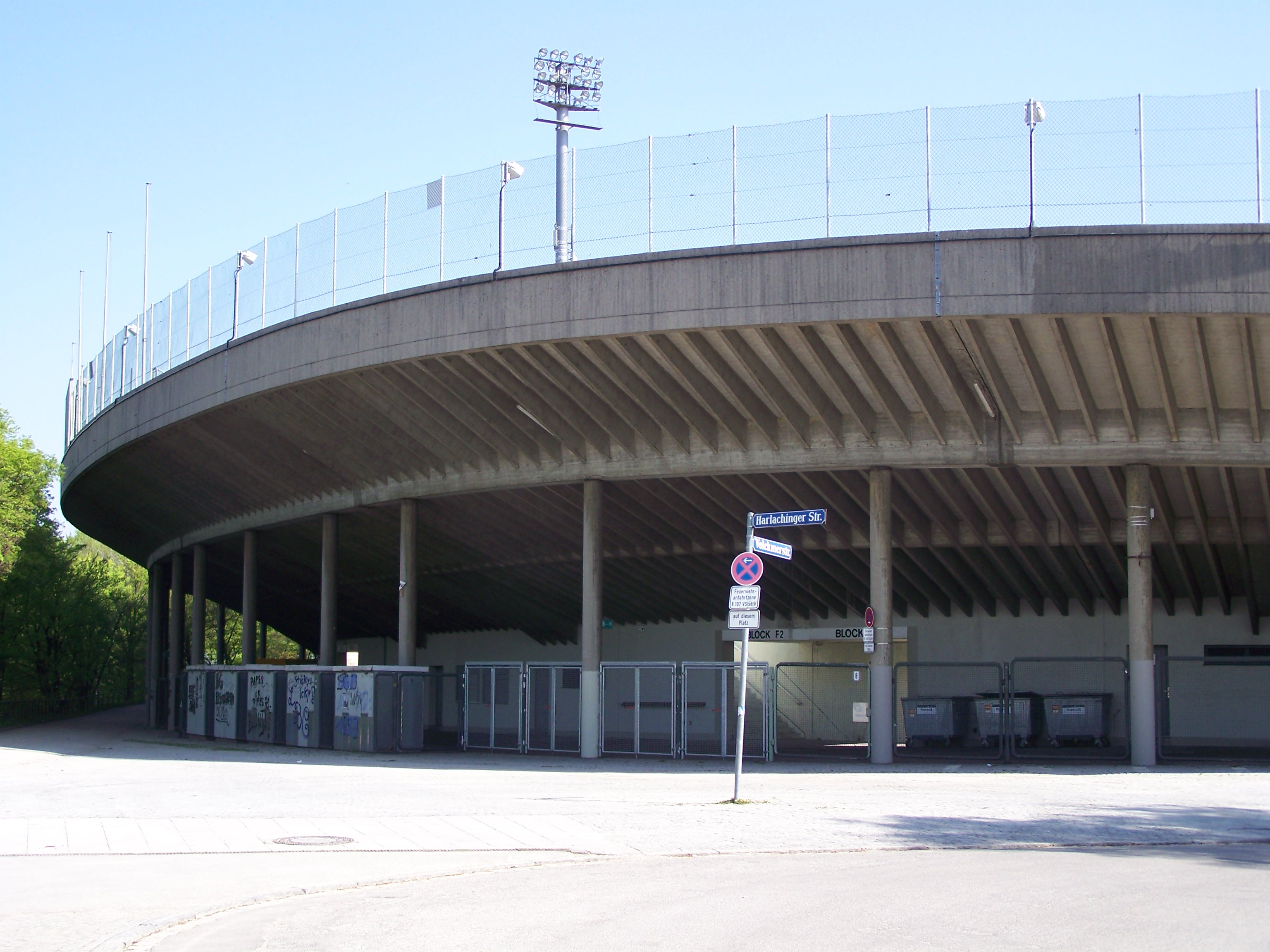 Westkurve of the Städtische Stadion an der Grünwalder Straße in Munich